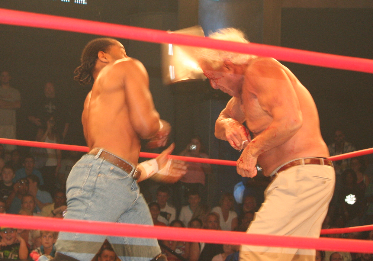 Professional wrestlers Jay Lethal and Ric Flair in the ring at a TNA Impact! taping